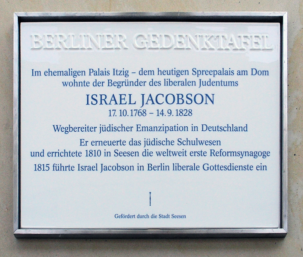 Berlin memorial plaque, Israel Jacobson, Burgstraße 25, Berlin-Mitte, Germany Koordinate:52°31′14″N 13°24′5″E / 52.52056°N 13.40139°E